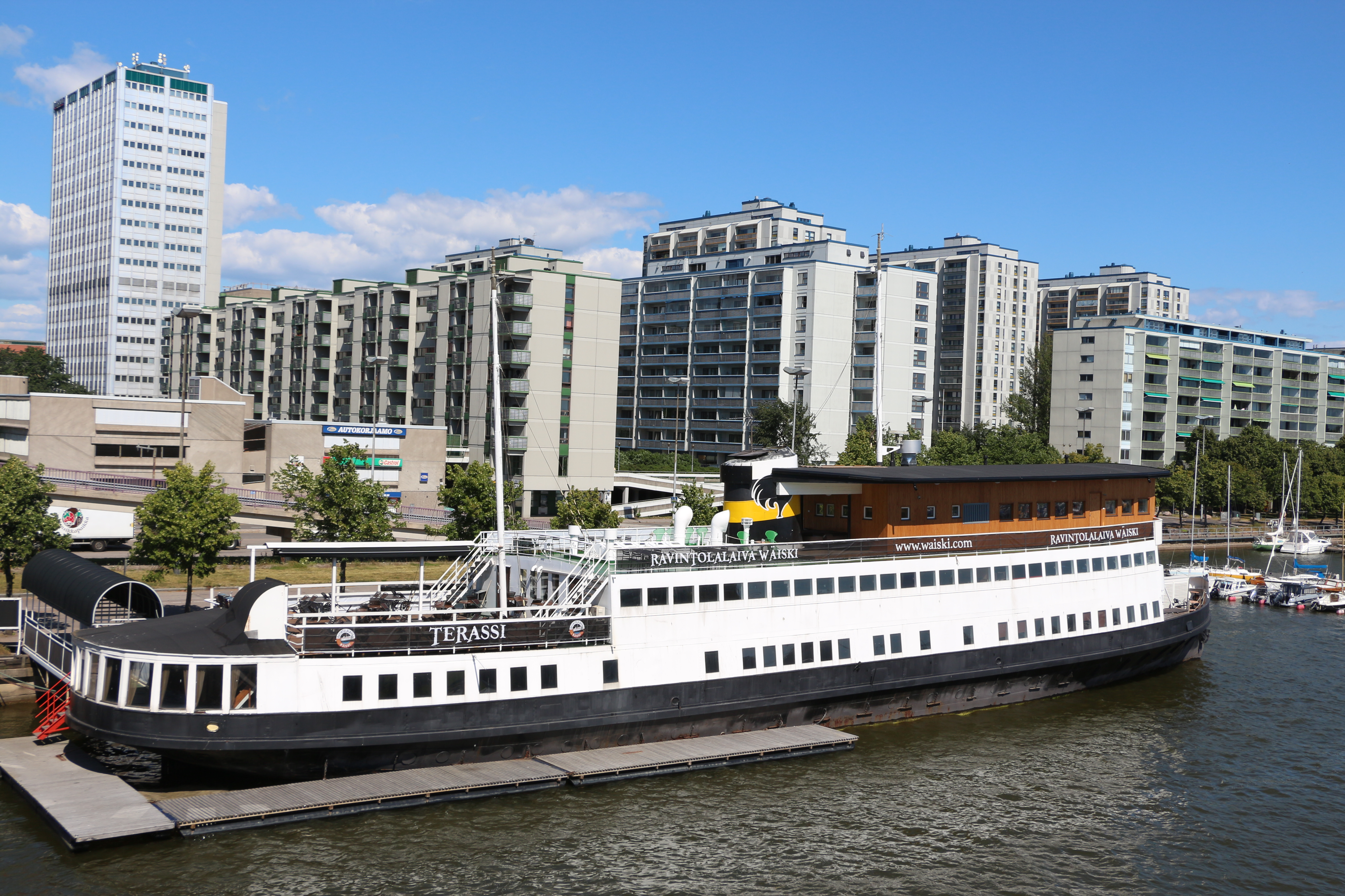 Wäiski restaurant boat